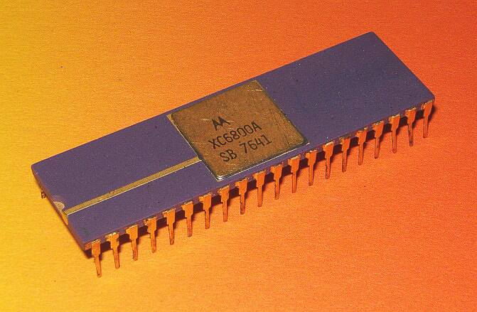 Motorola XC6800A